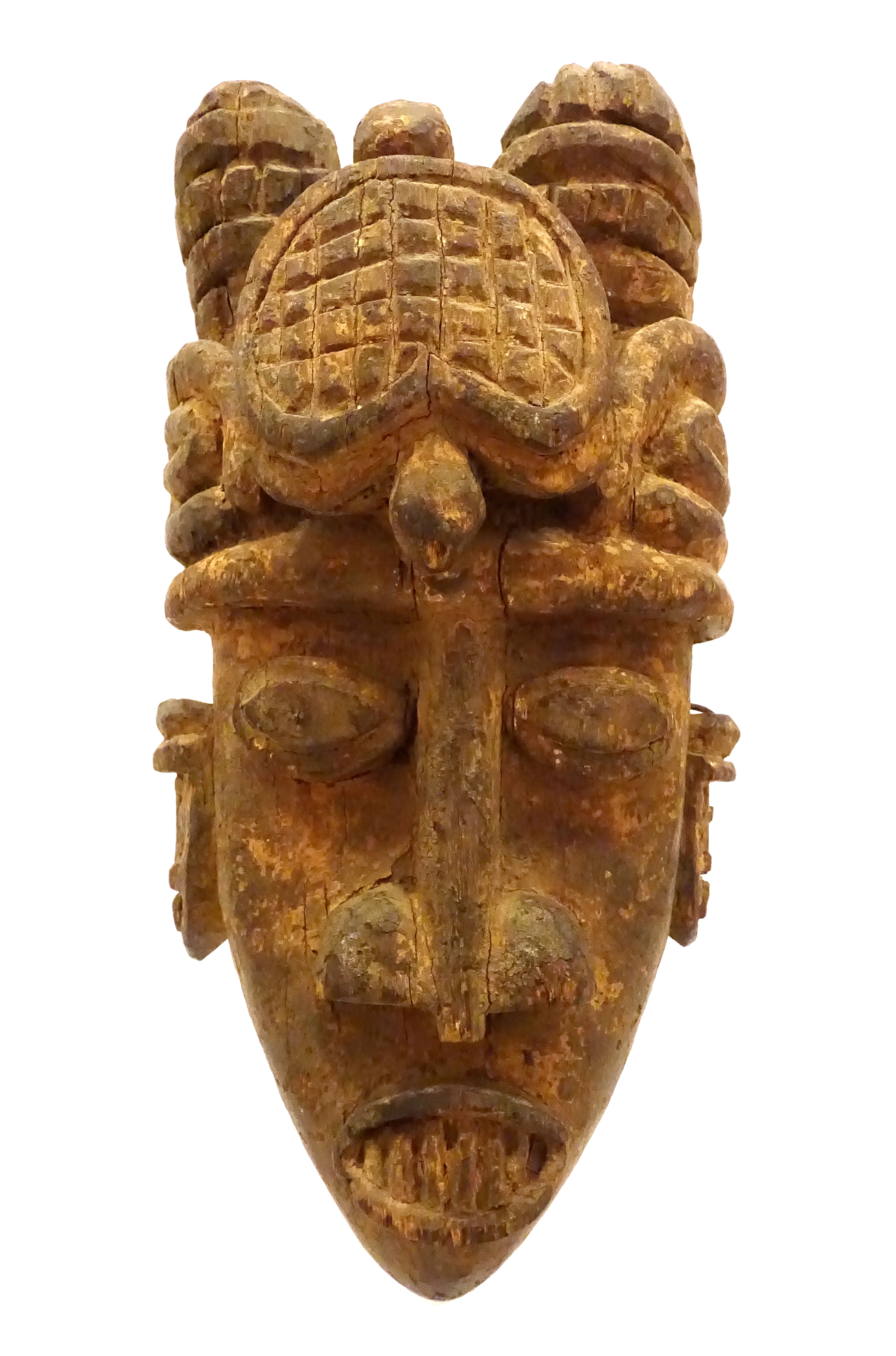 Exhibit in the Krannert Art Museum, University of Illinois at Urbana-Champaign - Urbana-Champaign, Illinois, USA. This work is old enough so that it is in the public domain.